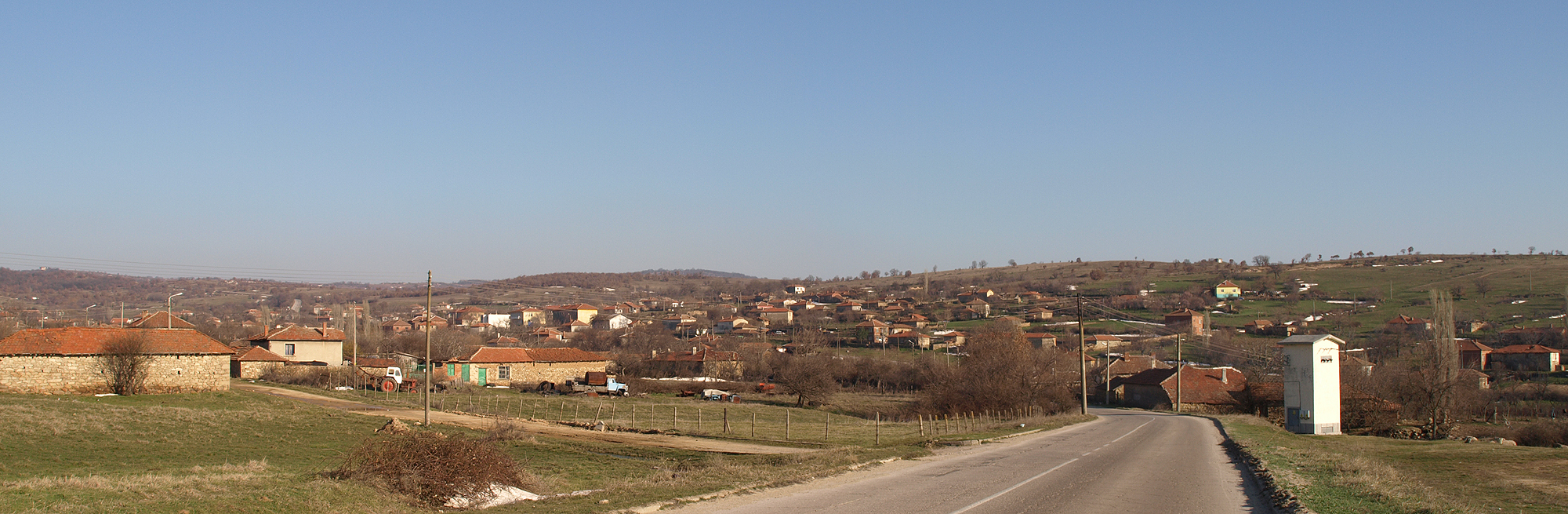 Bulgarska Polyana village Bulgaria